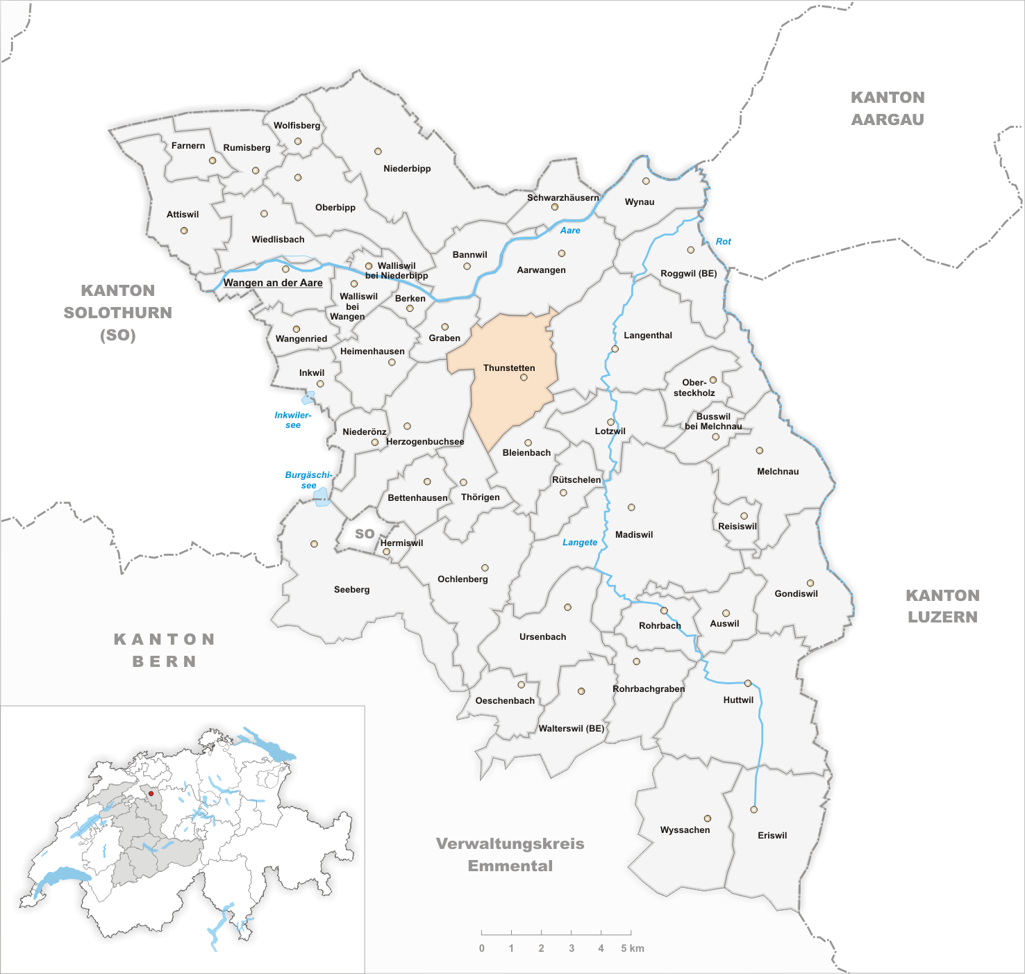 Municipality Thunstetten